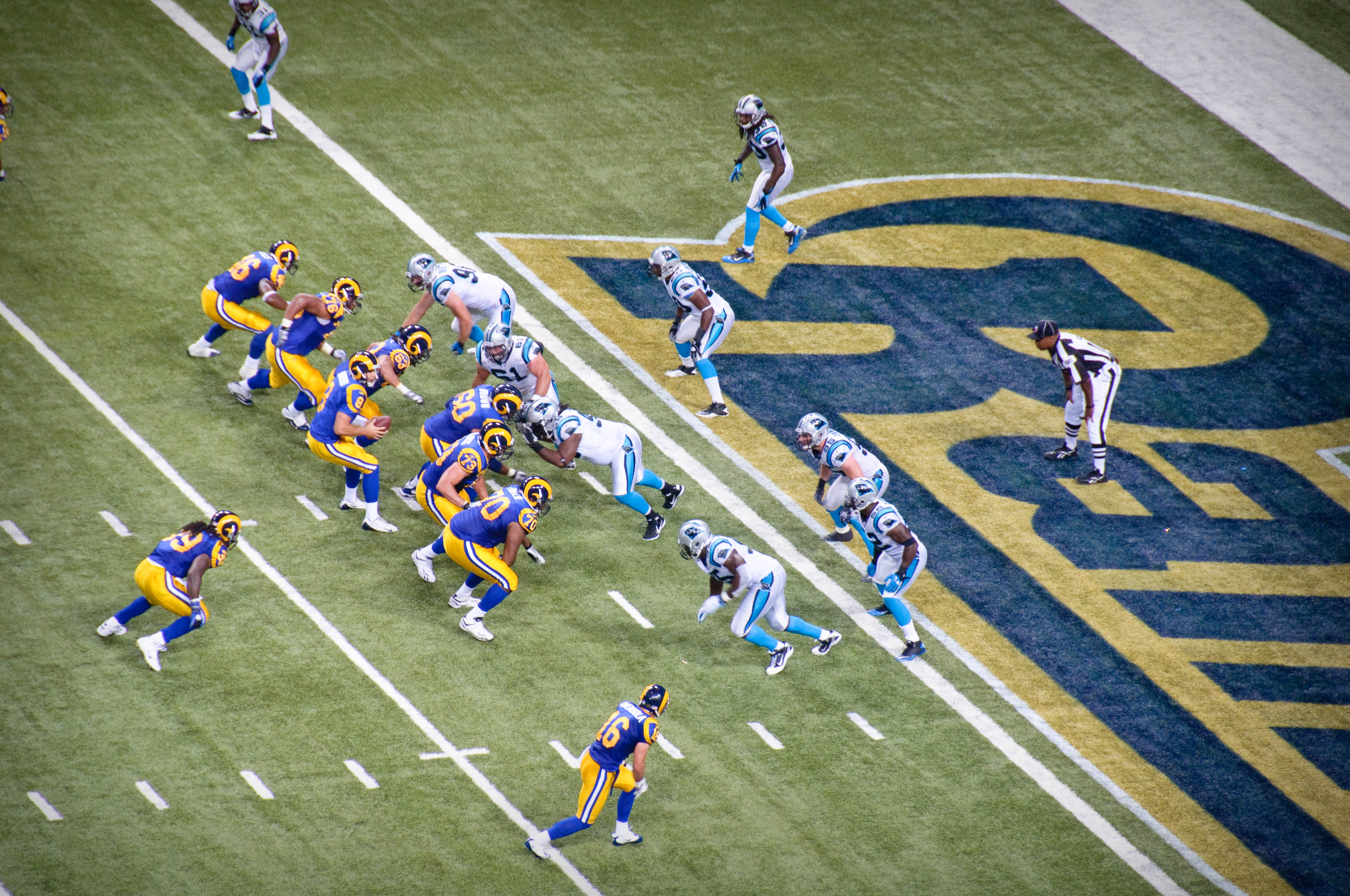 St. Louis Rams quarterback Sam Bradford attempts to pass vs. the Carolina Panthers.